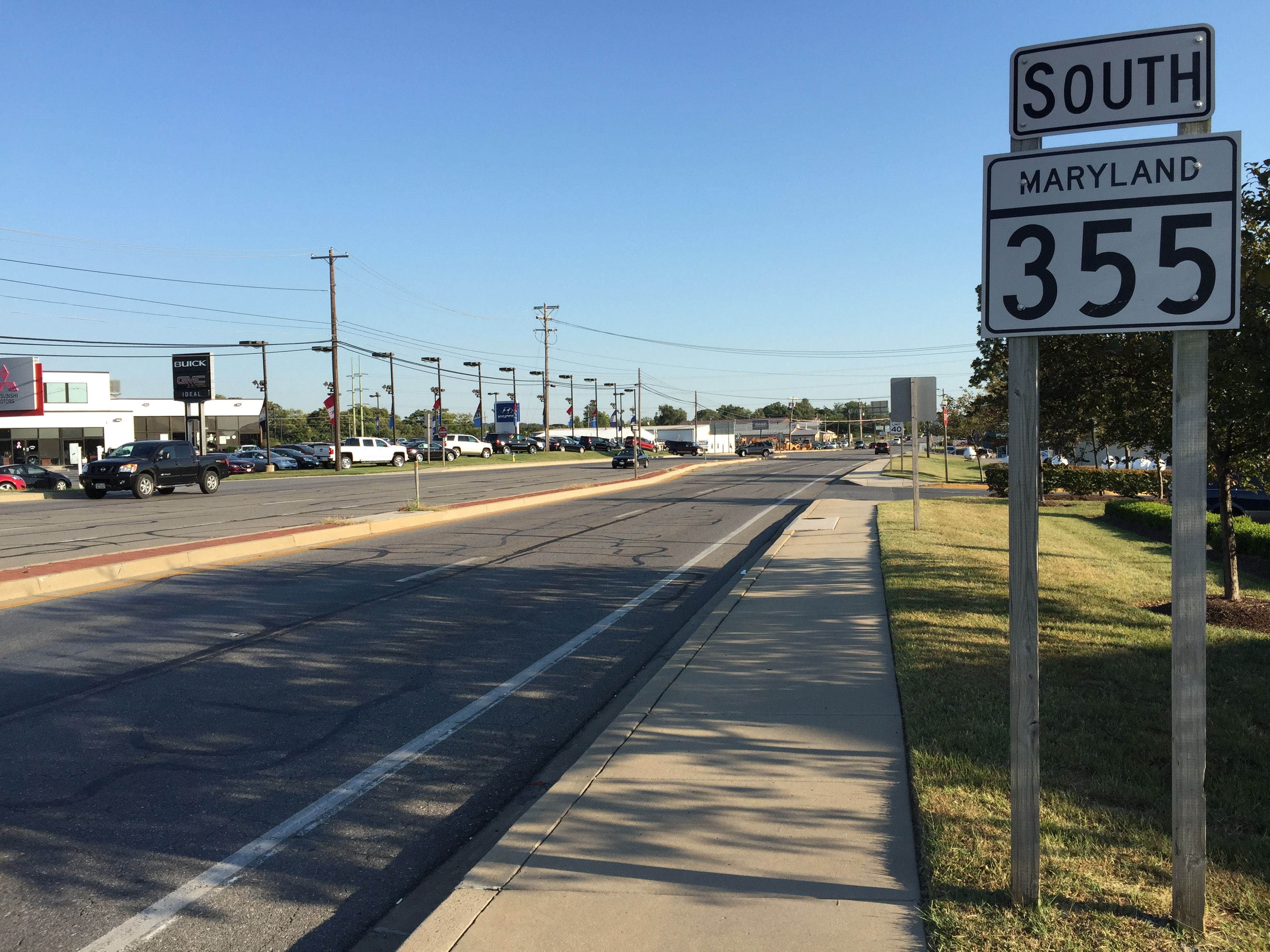 View south along Maryland State Route 355 (Urbana Pike) at Maryland State Route 85 (Buckeystown Pike) in Ballenger Creek, Frederick County, Maryland